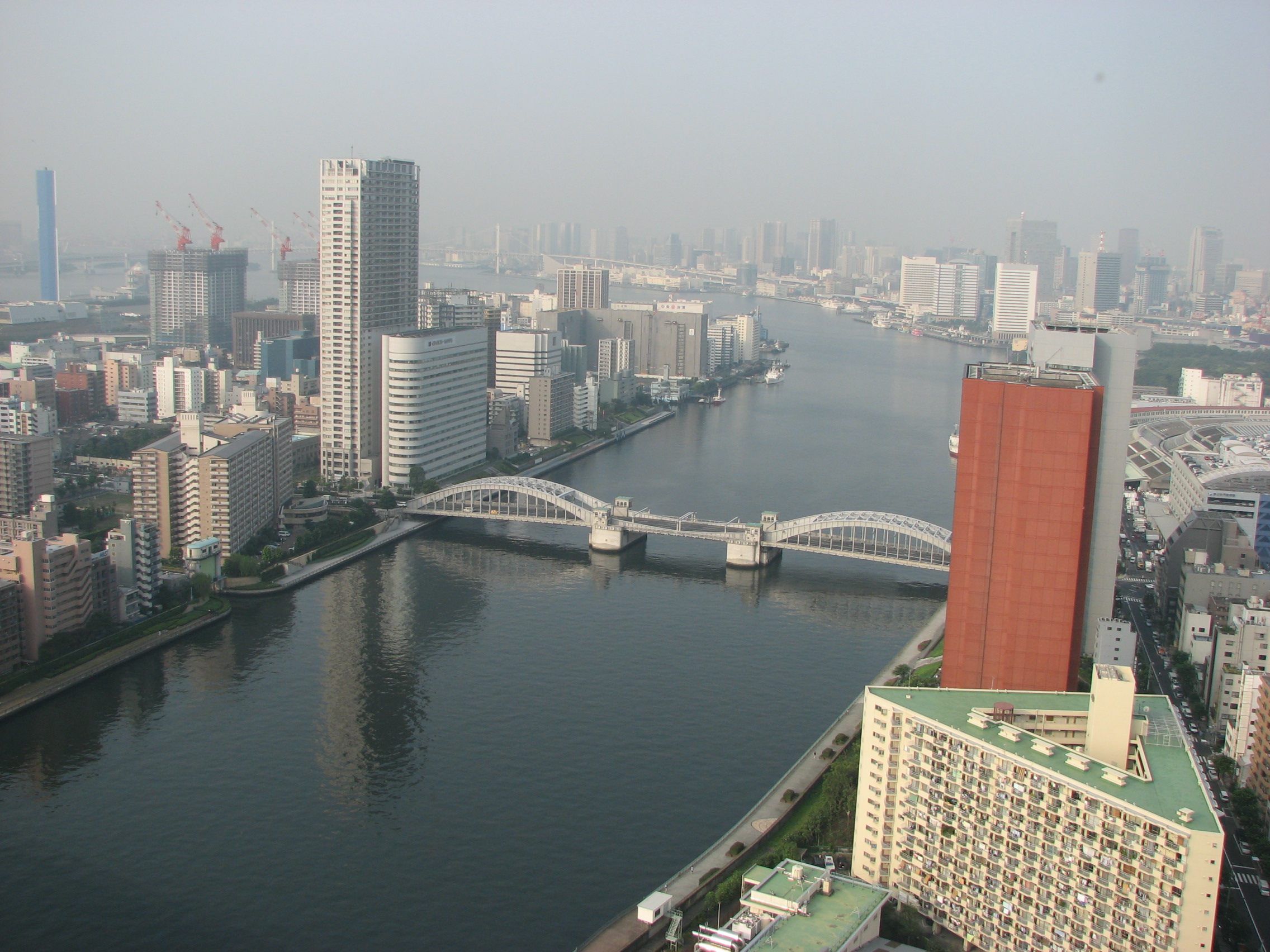 The Kachidokibashi over the Sumida River in Tokyo